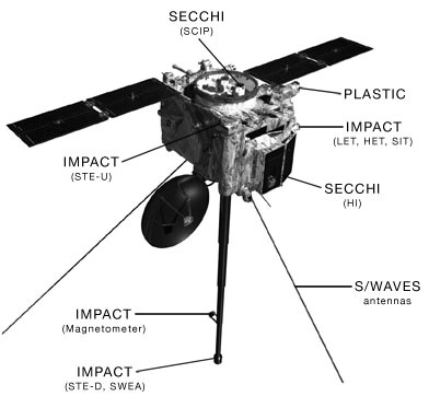 Overview of one of STEREO's two probes.